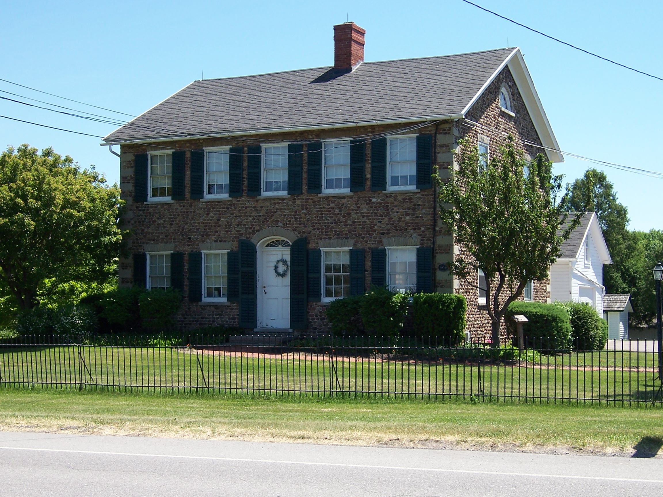 The Tinker Cobblestone Farmstead in Henrietta, New York, a suburb of Rochester. It is a cobblestone structure built around 1828. It is listed on the National Register of Historic Places.